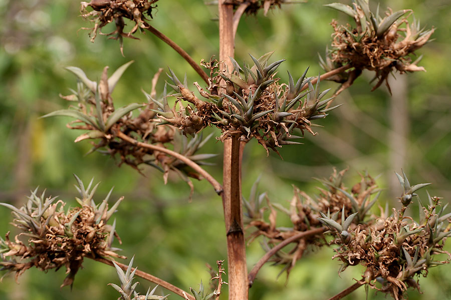 Variegated Caribbean Agave Agave angustifolia at Lotus Pond, Hyderabad, India.